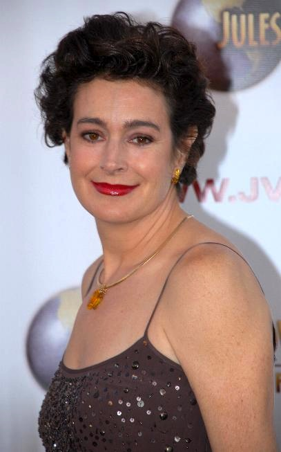 Sean Young at the 2007 Jules Verne Adventure Film Special Awards Presentation